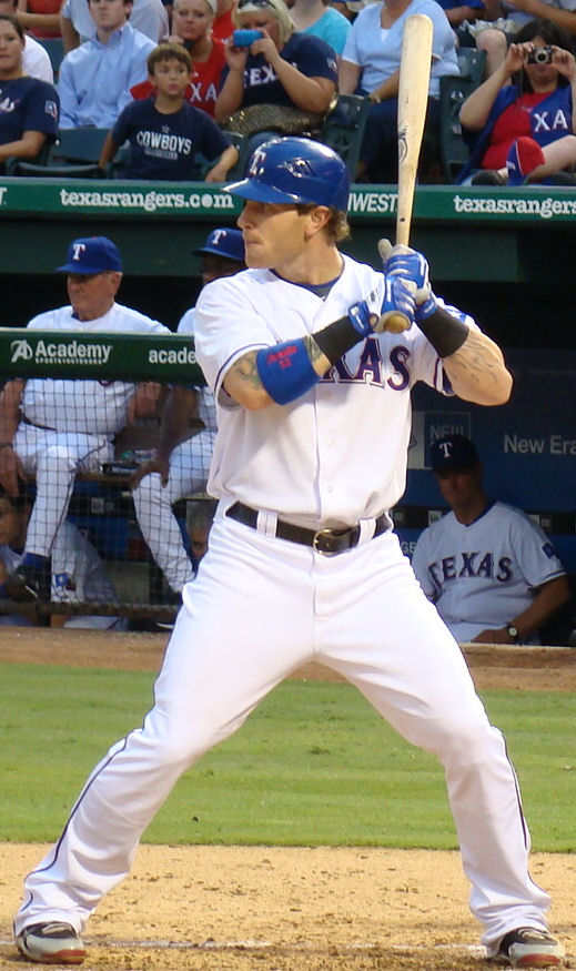 Josh Hamilton, Texas Rangers outfielder.